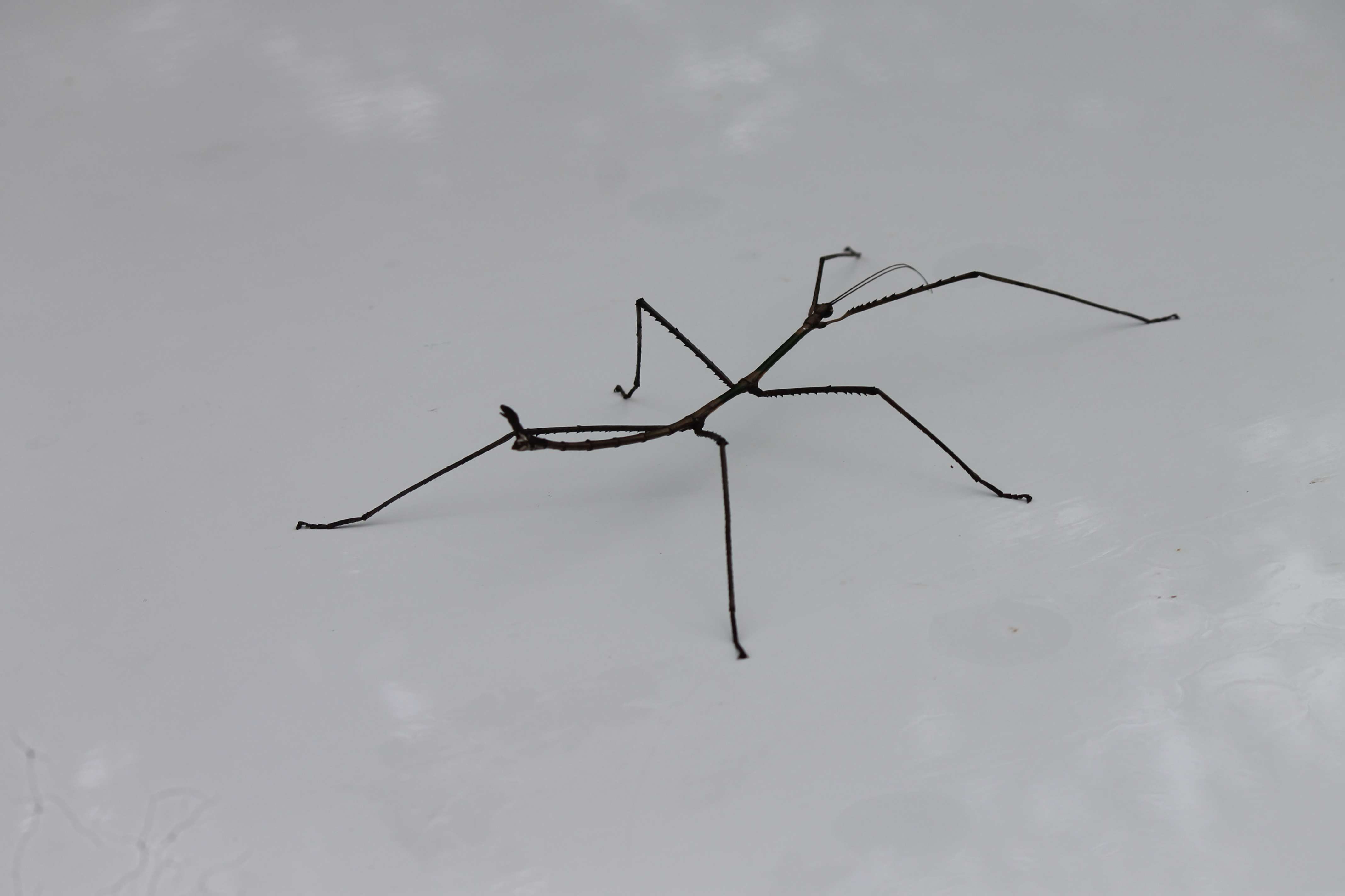 Stick insect ( ചുള്ളിപ്രാണി ) from Vallakkadavu, Idukki